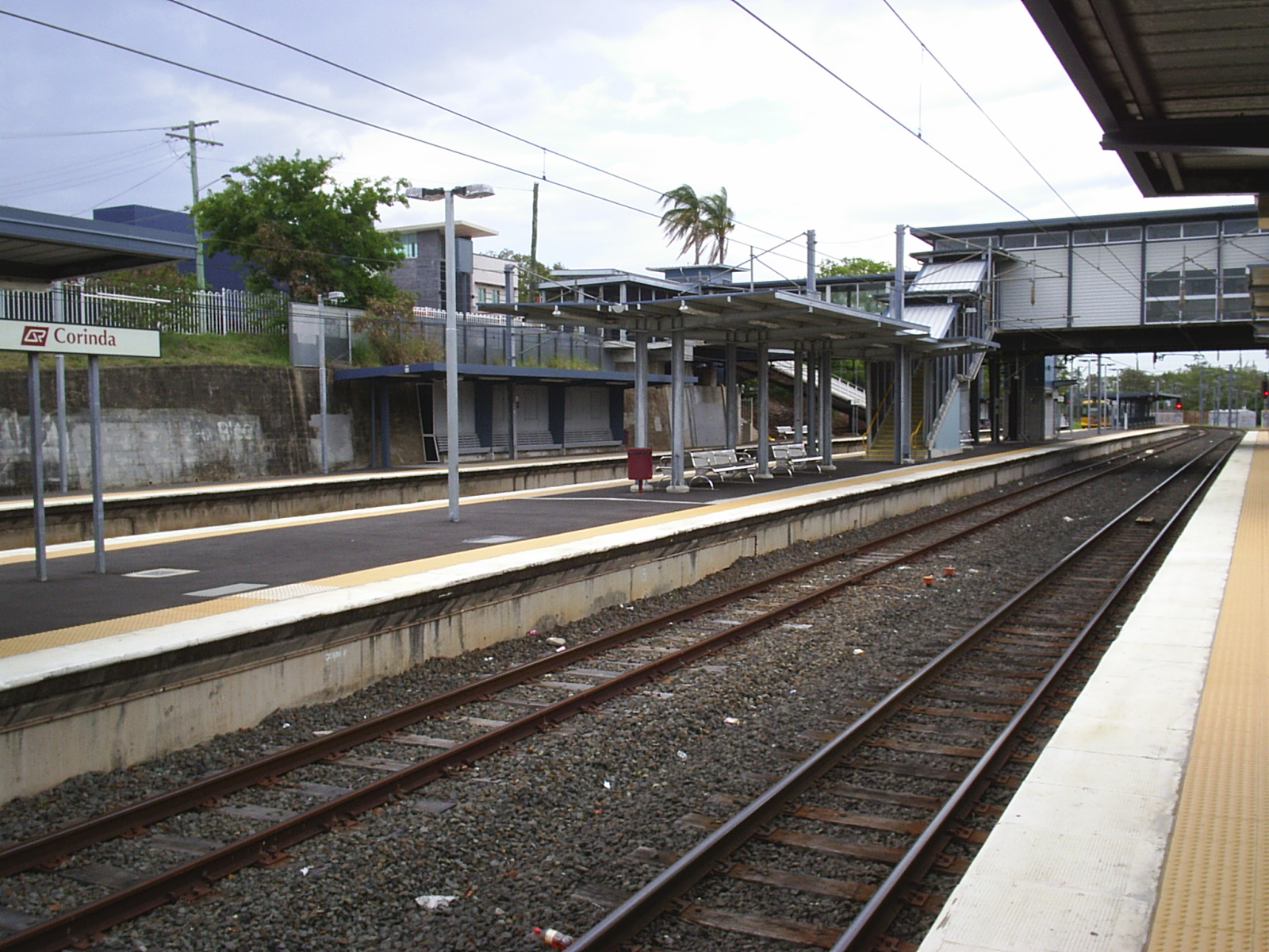 QR Corinda Station. Looking towards the City & Platforms 3,4 & 5 by Qld matt 14:38, 22 December 2006 (UTC)